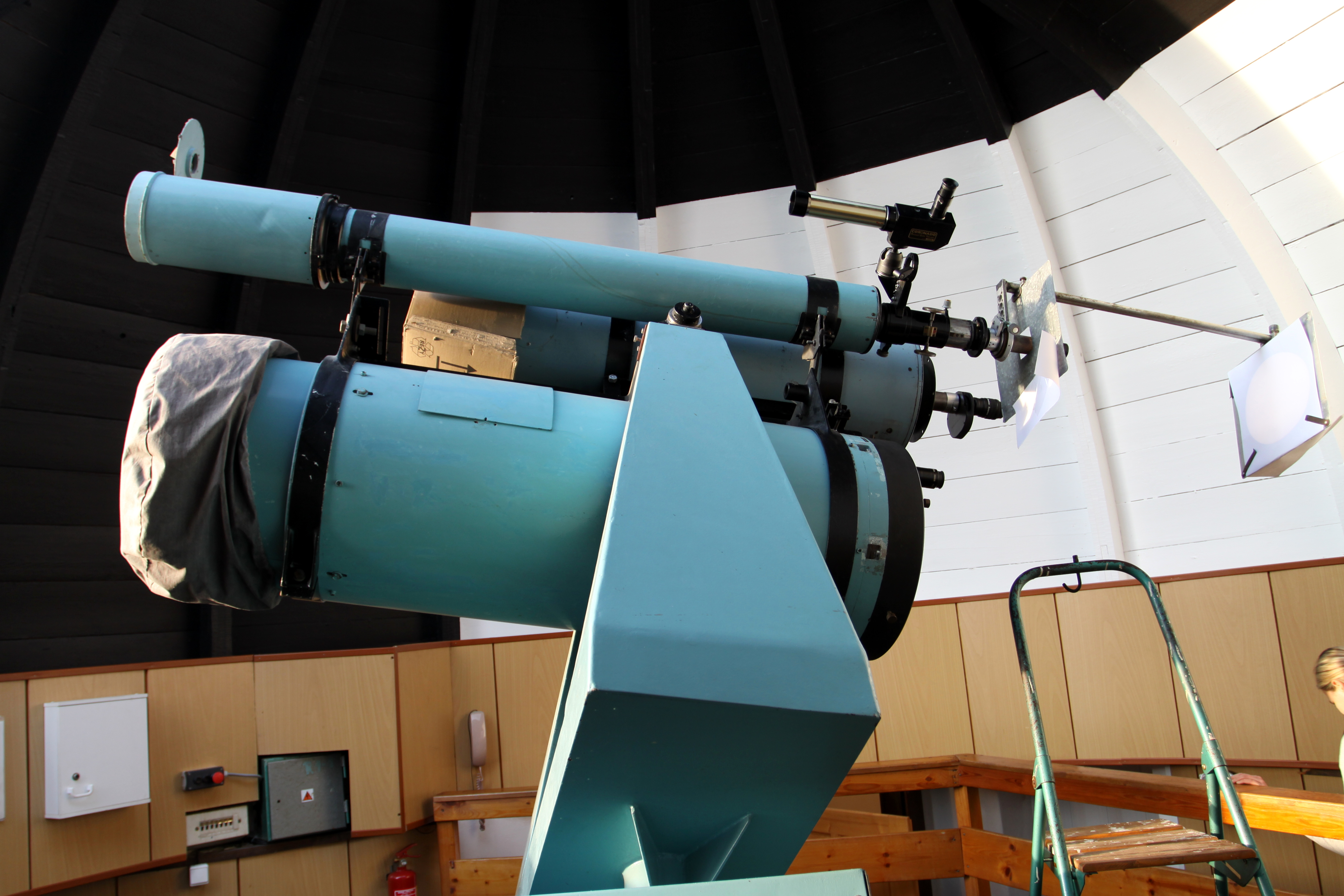 Observatory Úpice near town Úpice, Trutnov District, Czech Republic - Google Maps - Google Earth